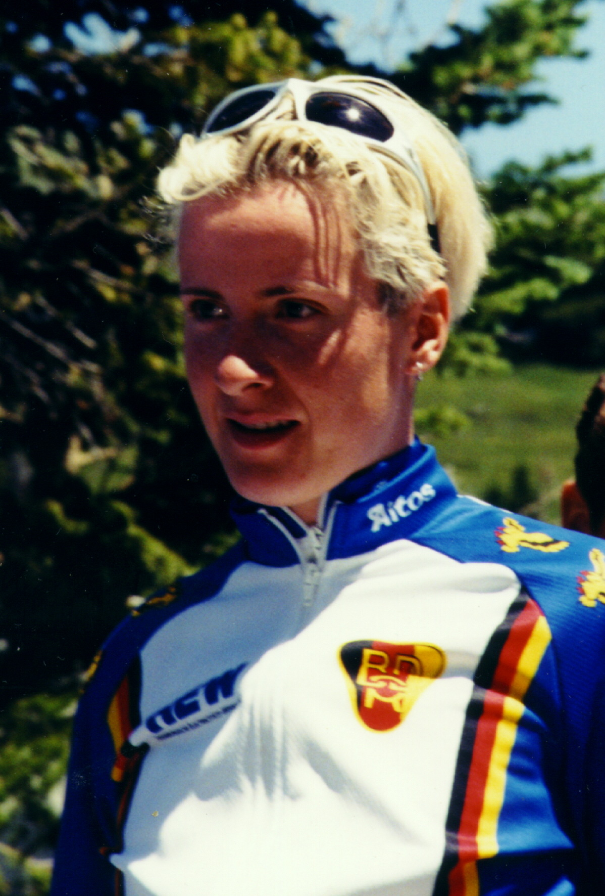 Judith Arndt following the Burley to Pomerelle stage of the 2001 Women's Challenge. Arndt finished in 5th place in that stage, which culminated in a steep 6 mile climb to the finish at Pomerelle ski lodge.